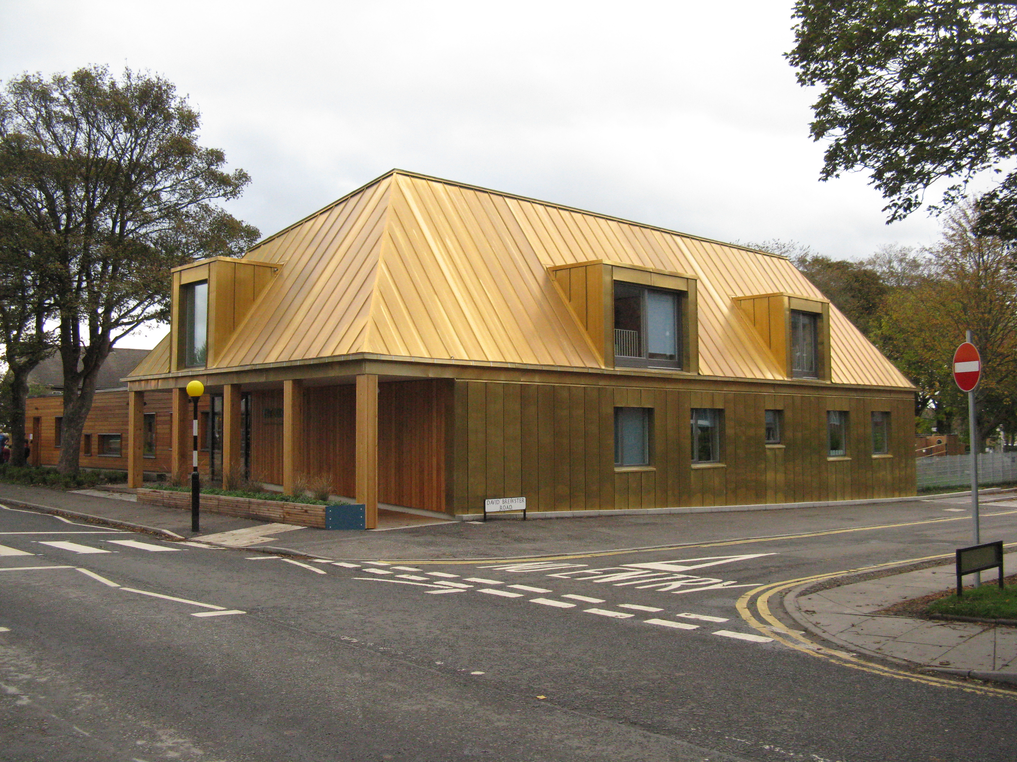 Arcadia Nursery. A new and recently opened nursery at the University of Edinburgh. Designed by Malcolm Fraser Architects, it is strikingly clad in copper and wood [it smells lovely!].